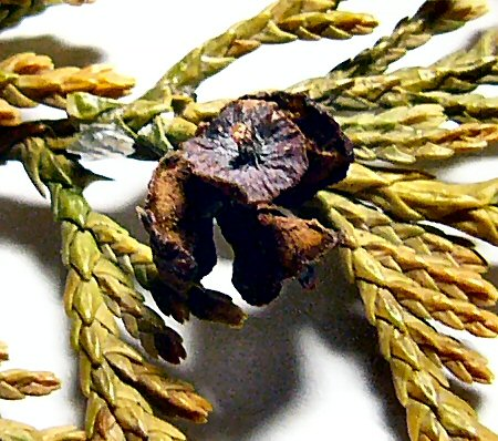 Menchi's pic re-named with accurate name.